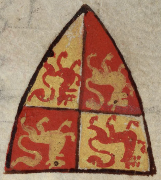 Coat of arms of Gruffudd ap Llywelyn Fawr as it appears on folio 170r of Cambridge Corpus Christi College 16 II. The upside down shield represents Gruffydd's death.